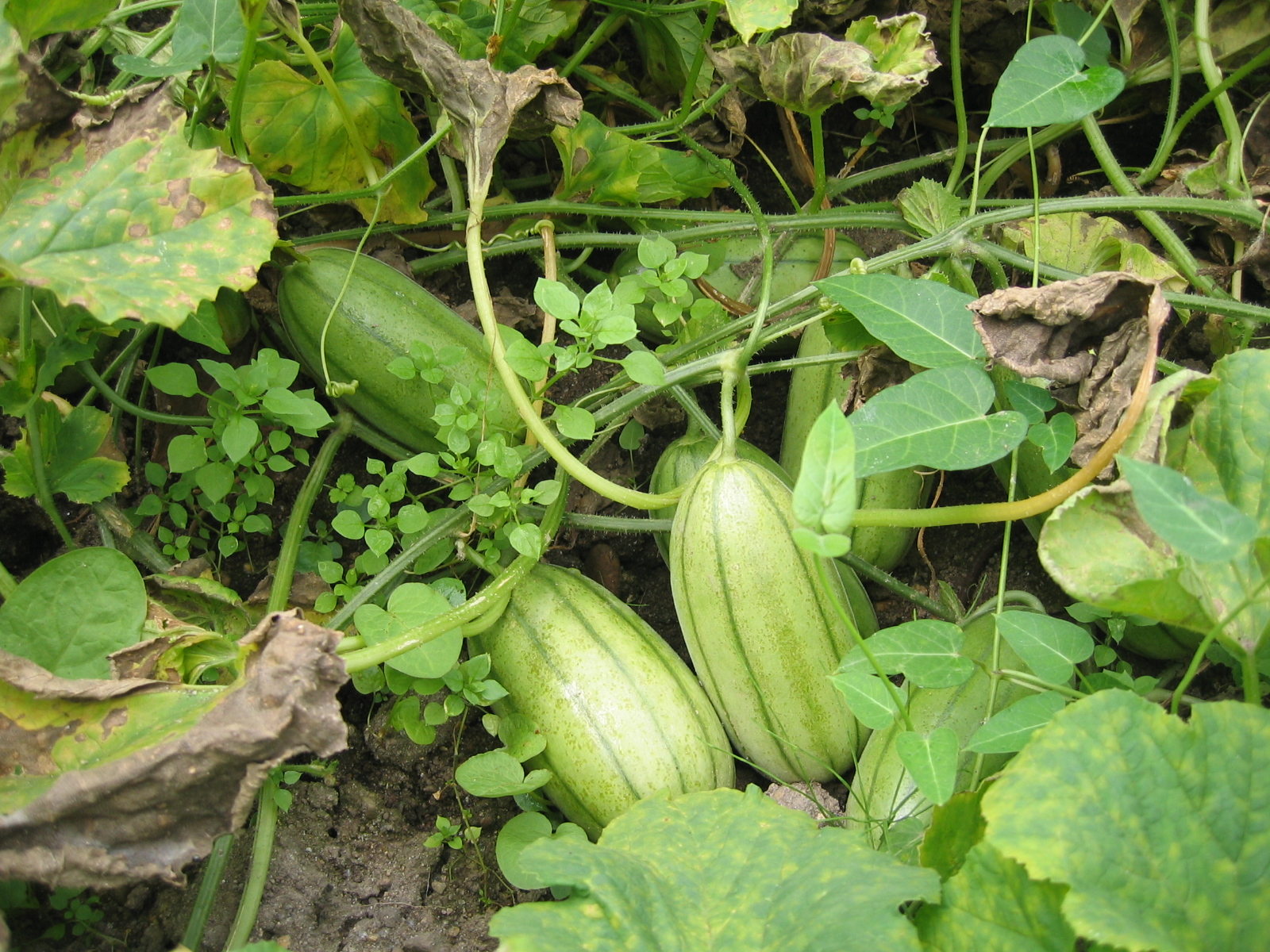 Korean melon (Cucumis melo var. makuwa)